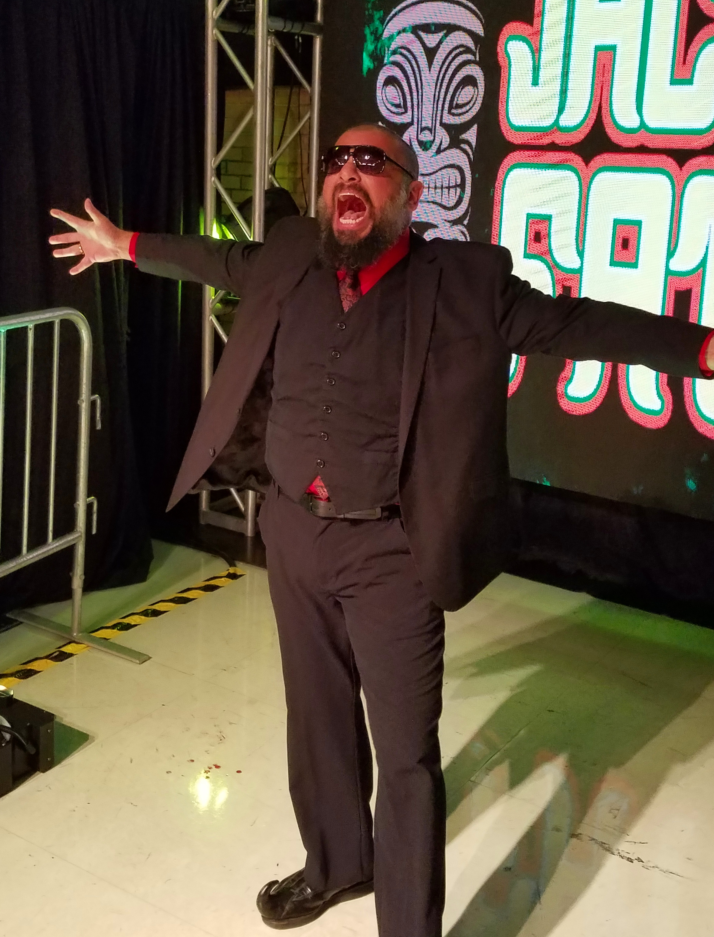 Josef Samael standing in the ring entrance before the main event of Jacob Fatu vs. LA Park at MLW Saturday Night SuperFight on November 2, 2019 at Cicero Stadium in Cicero, IL